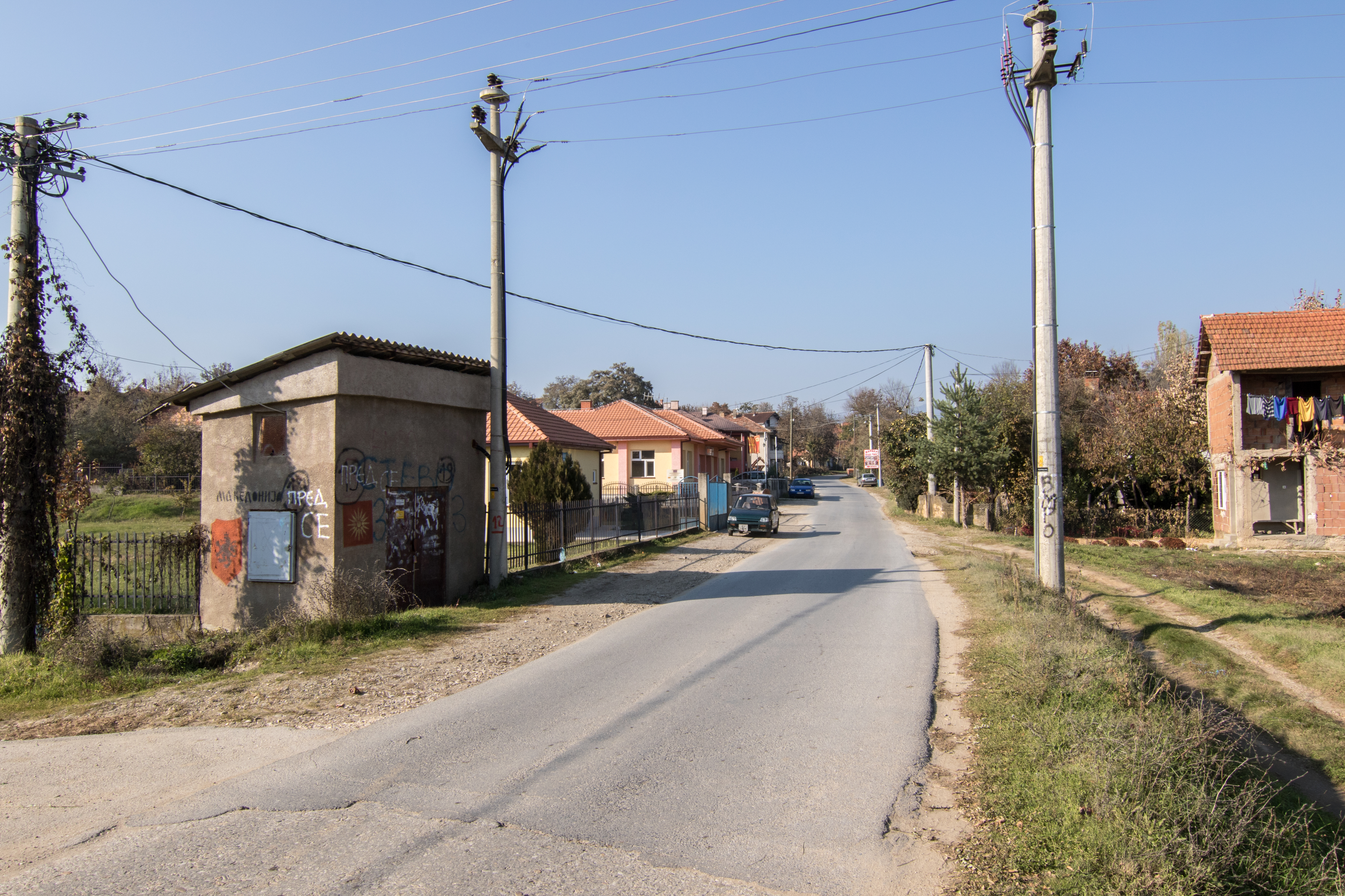 Main street in the village Rankovce